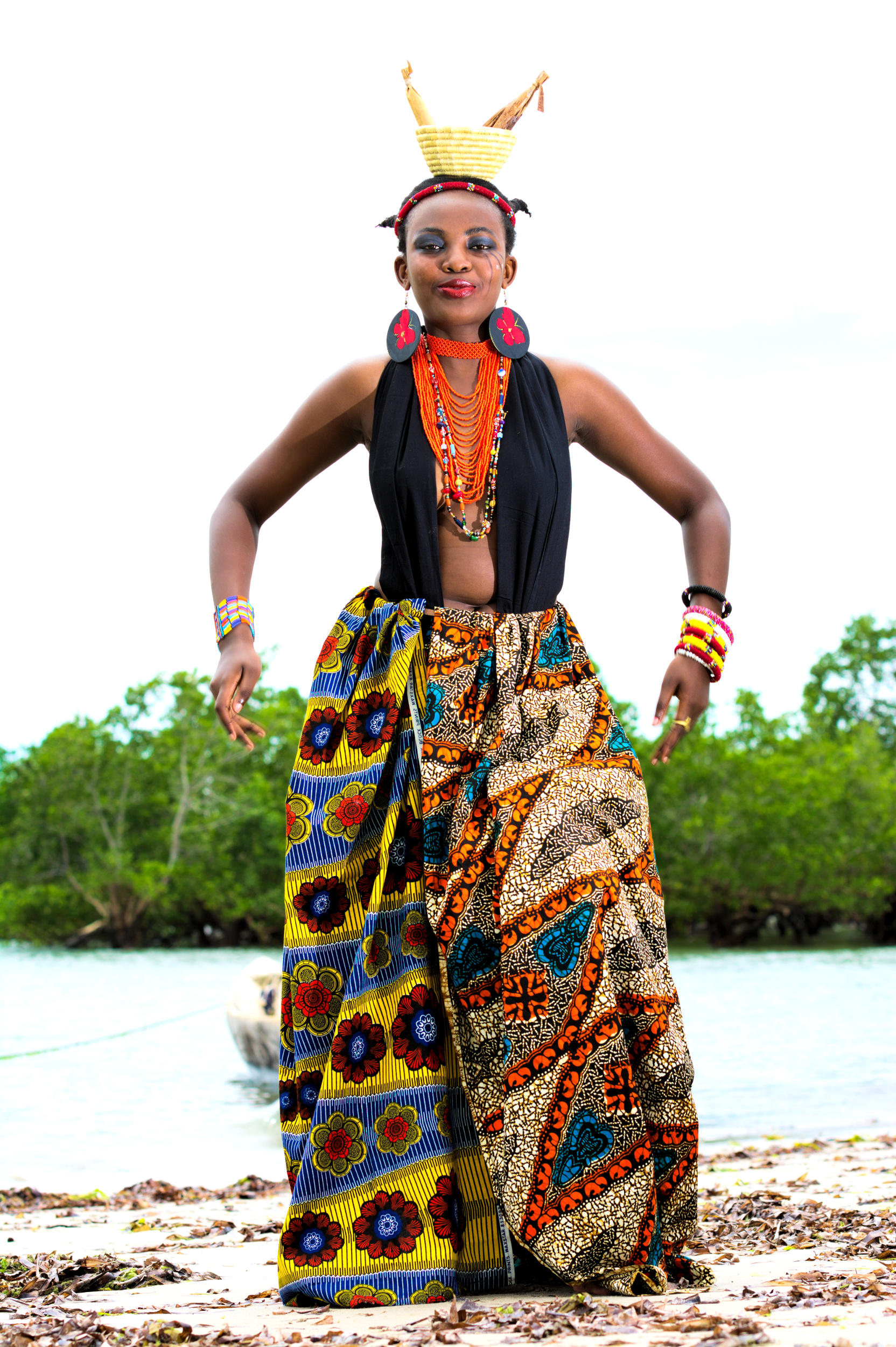 A African women is dress a traditional style clothing from local village of TanzaniaKiswahili: binti wa kiafrika, amebeba kikapu kidogo, vazi la kitenge na shanga za kimasai This is an image of Cultural Fashion or Adornment from Tanzania